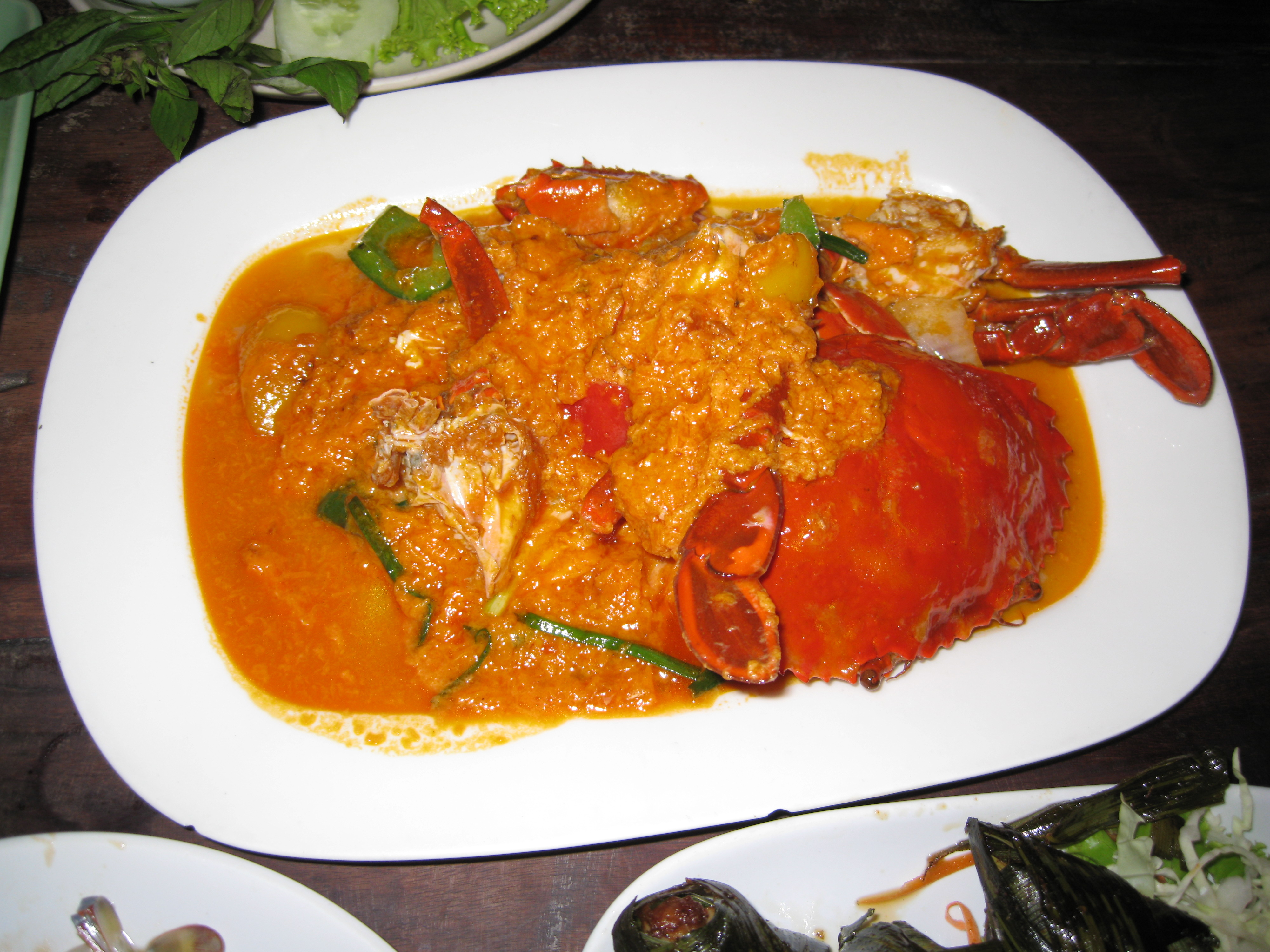 Poo Pad Pong Karee (ปูผัดผงกะหรี่) Stier-fried Crab with Curry sauce